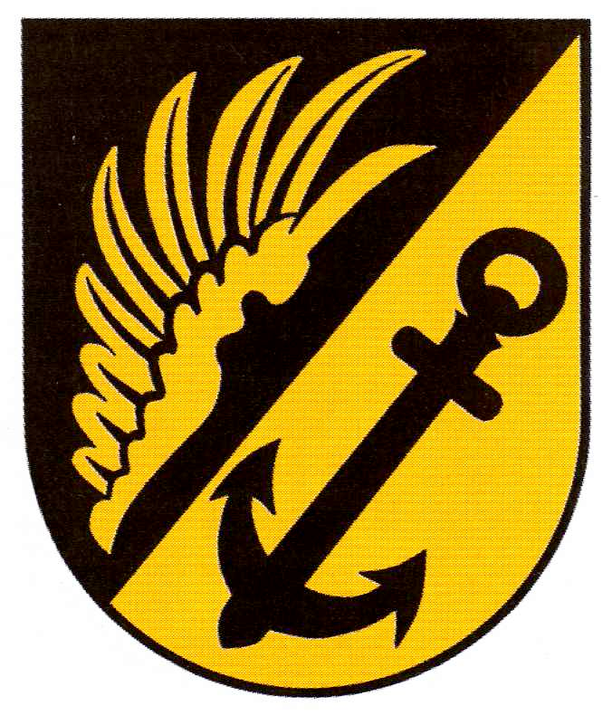 Coat of Arms of Gevensleben